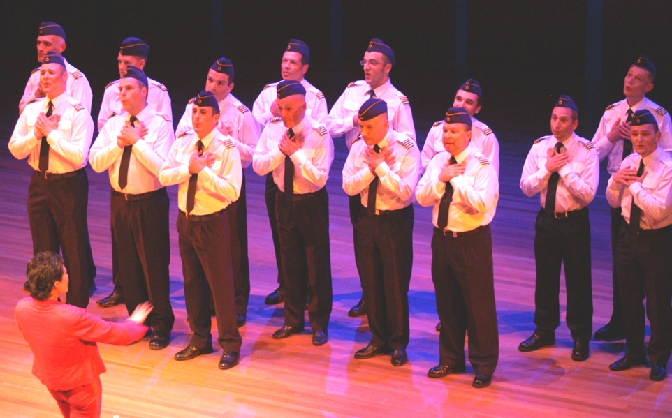 Gay choir RosaCavaliere from Berlin in performance in Leeuwarden, Netherlands